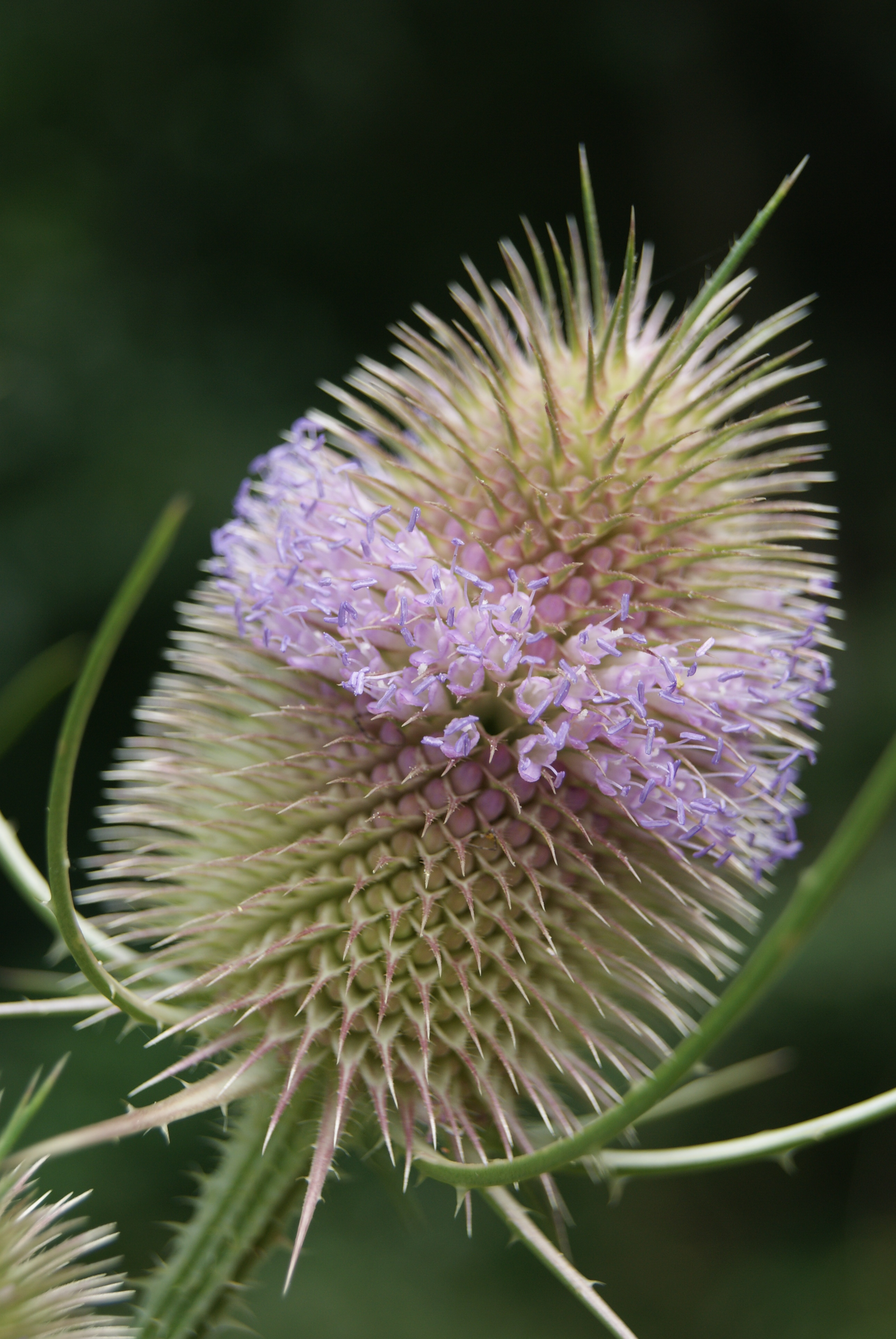 Dipsacus fullonum, 57258 Freudenberg, Germany.